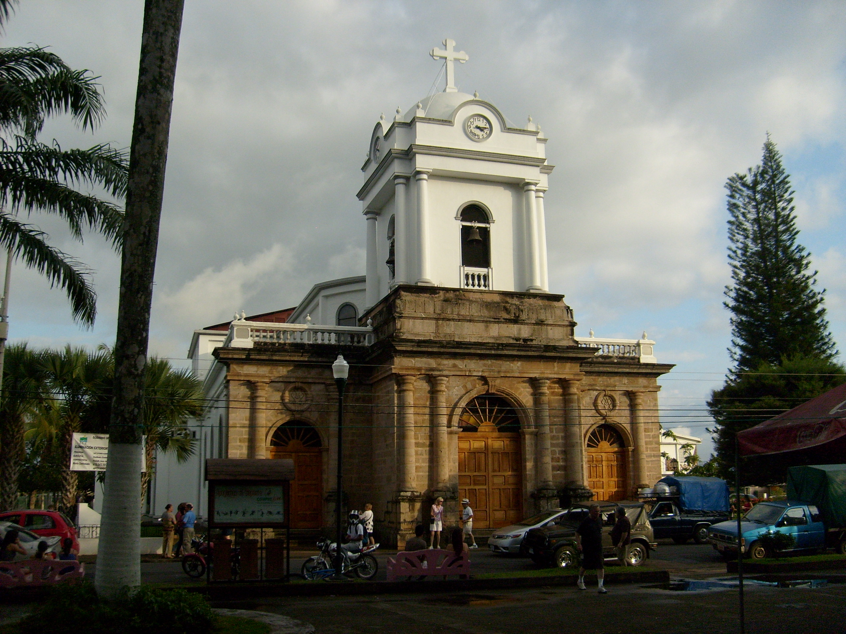 Church in Esparza, Costa Rica